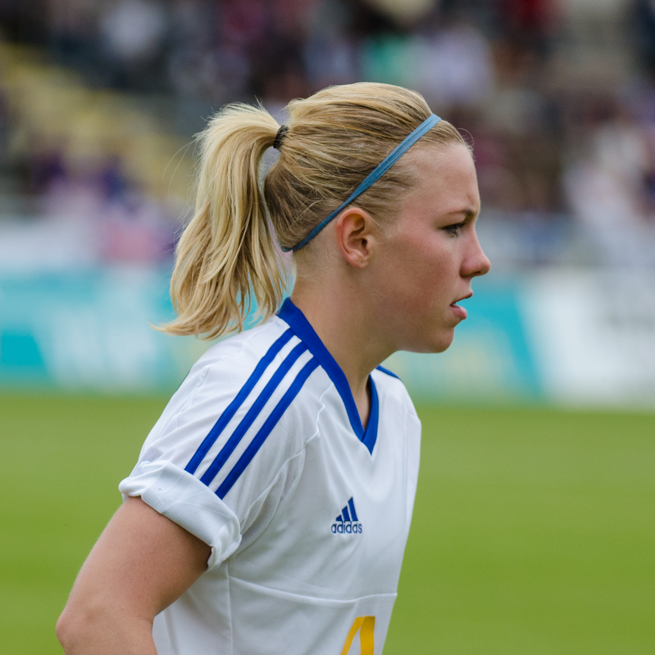 Match of the German Women's Football Bundesliga between 1.FFC Frankfurt and 1. FFC Turbine Potsdam, 2015-09-13